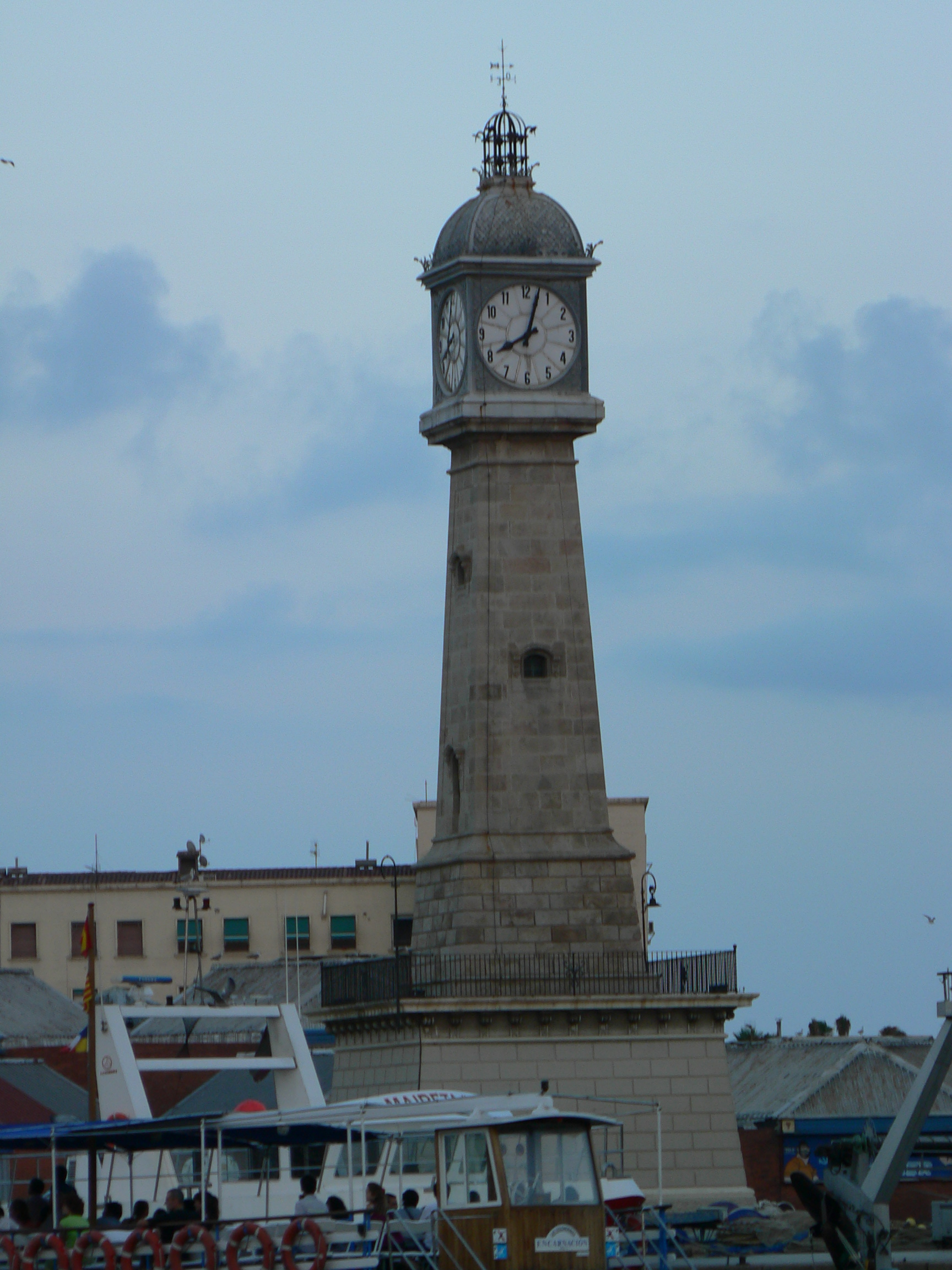 Barcelona, Spain